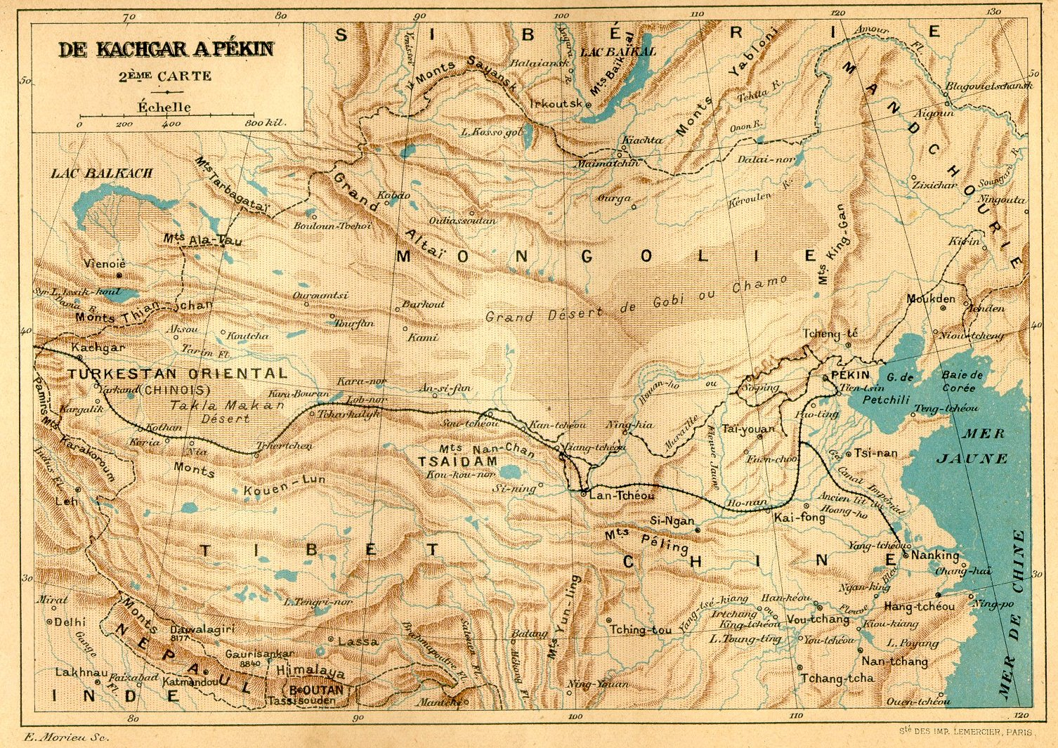 An map from Jules Verne's novel "Claudius Bombarnac" (alternate English titles: "The Special Correspondent", "The Adventures of a Special Correspondent", "The Adventures of a Special Correspondent in Central Asia" or "Claudius Bombarnac: Special Correspondent").